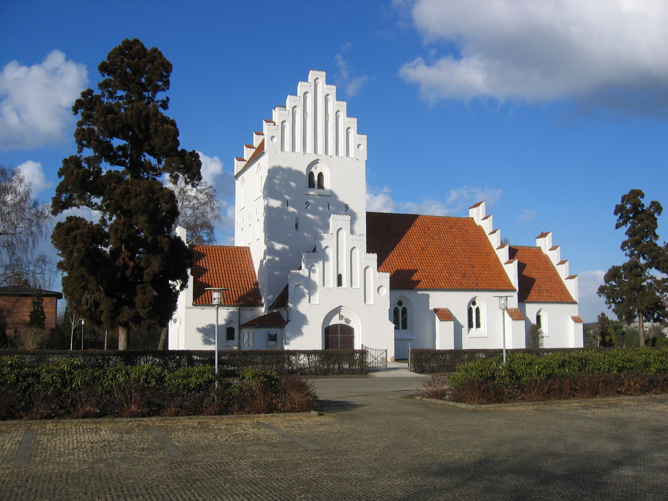 Lundtofte church, Lundtofte Parish, Sokkelund Herred, Copenhagen County, Denmark